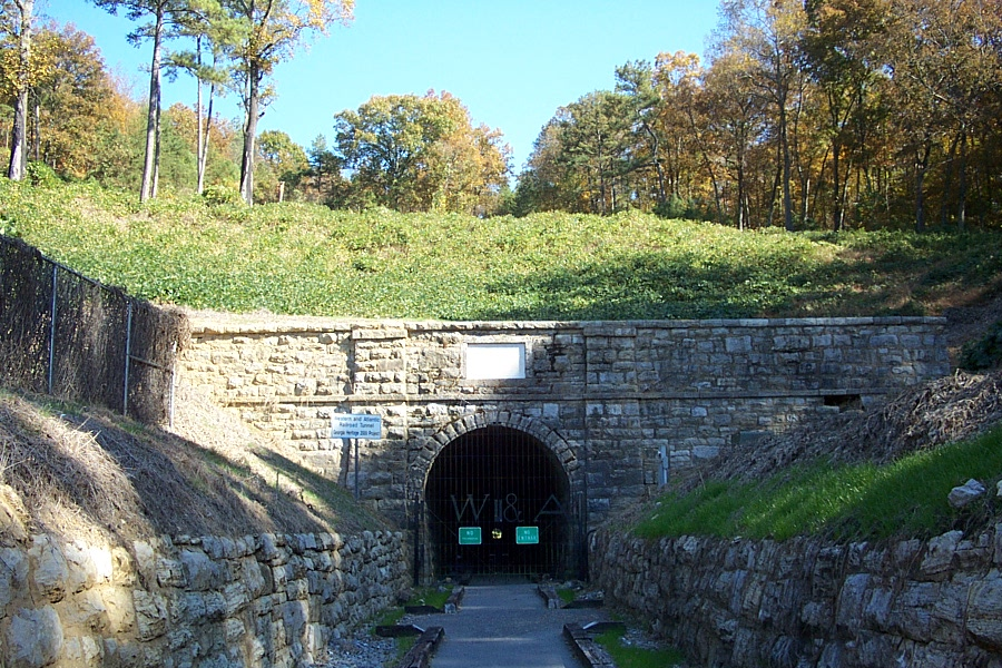 Cut stone face of Western & Atlantic Railroad tunnel in Tunnel Hill, Georgia